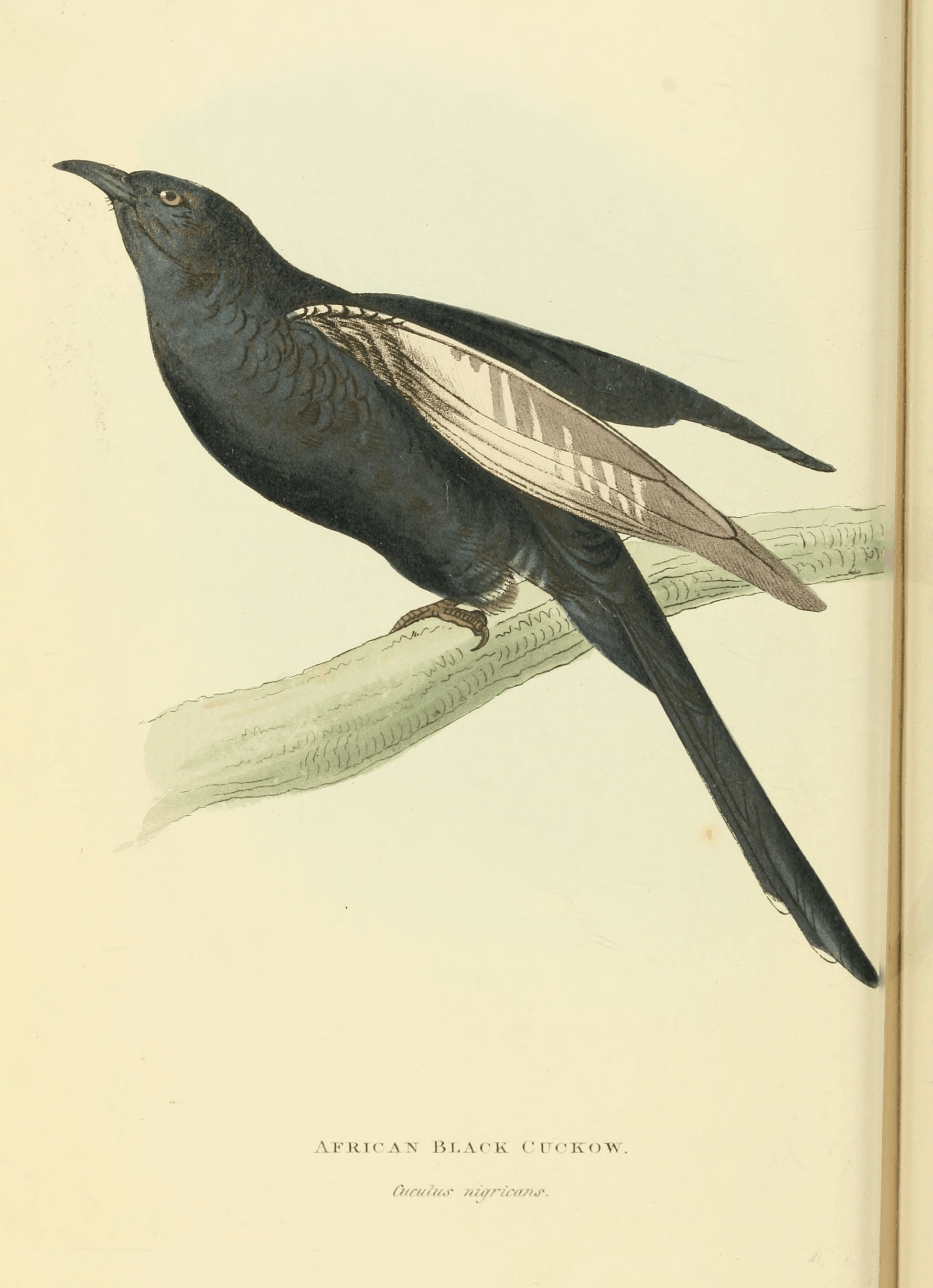 Plate from Zoological illustrations, Volume 1, 2nd series. African Black Cuckow. Cuculus nigricans Swainson. Accepted as C. clamosus[1].